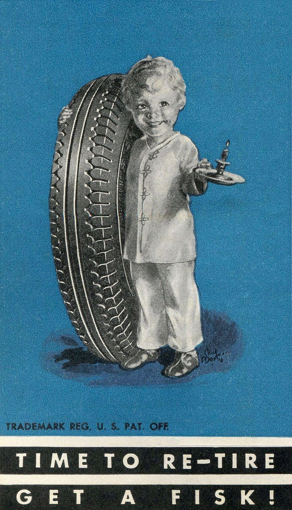 The winsome, wide-awake, curly-haired boy of Fisk Tires.